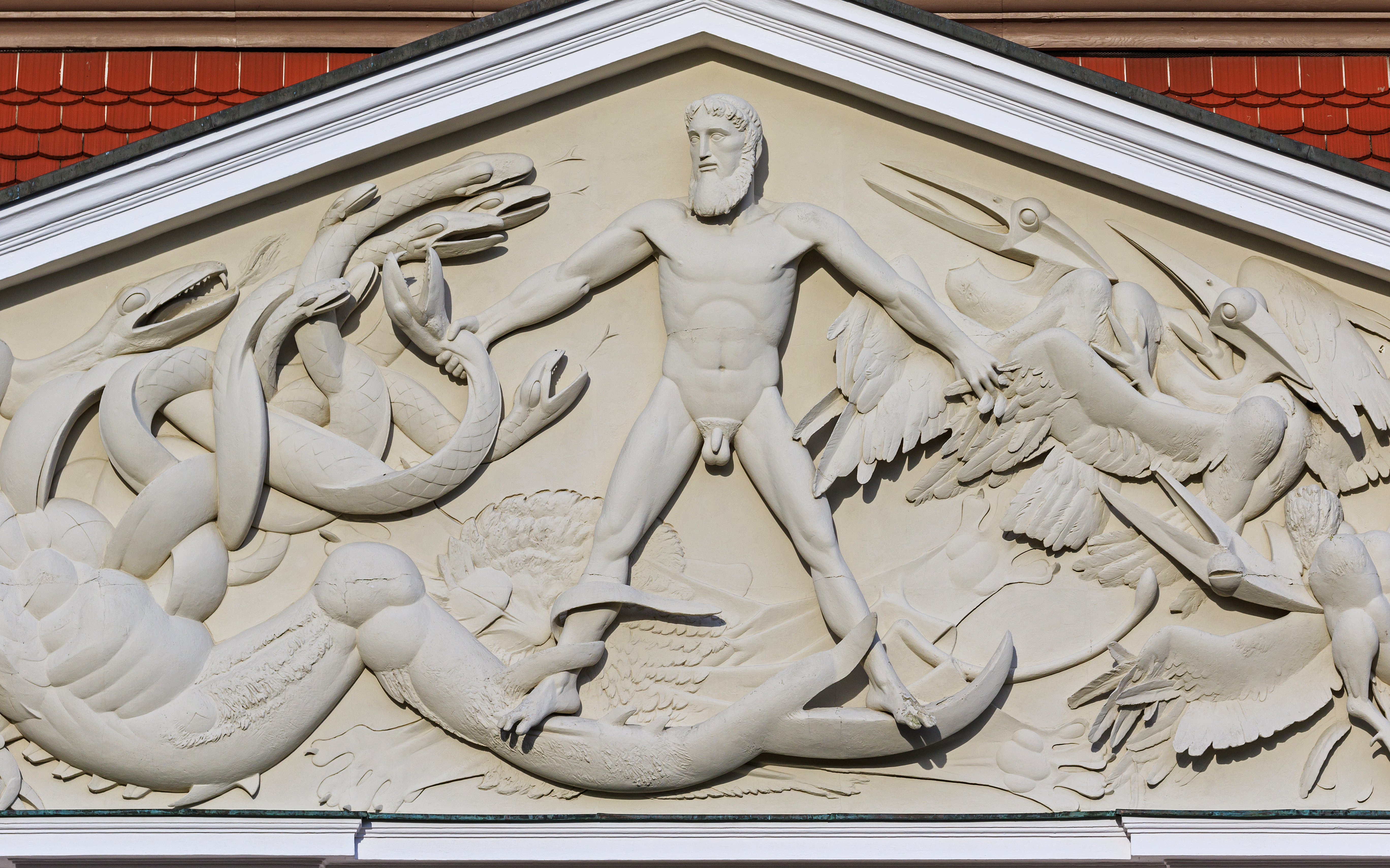 The Friedrichsfelde manor in Berlin, detail of the frieze